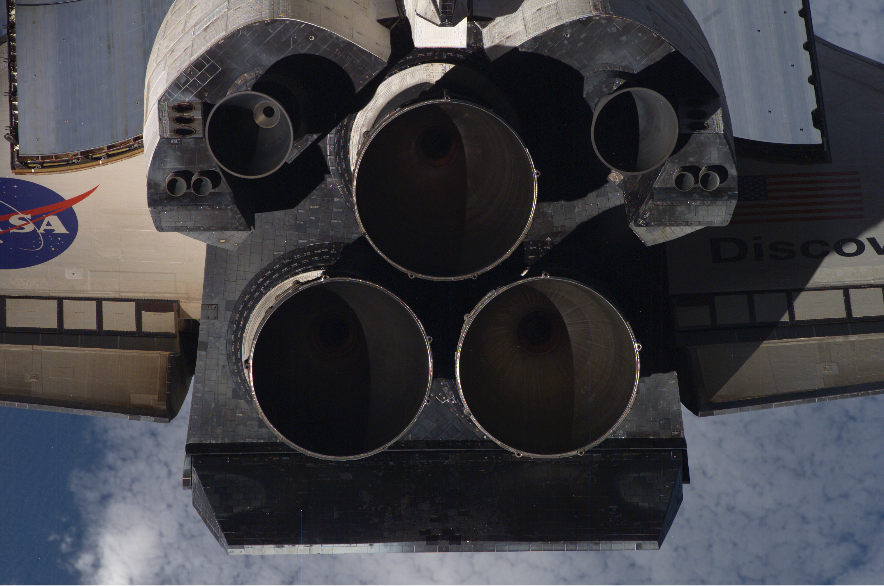 ISS014-E-09371 (11 Dec. 2006) --- A close-up view of Space Shuttle Discovery's tail section is featured in this image photographed by an Expedition 14 crewmember on the International Space Station during RPM survey. Visible are the shuttle's main engines, orbital maneuvering system (OMS) pods, a portion of the payload bay door panels and the shuttle's wings.